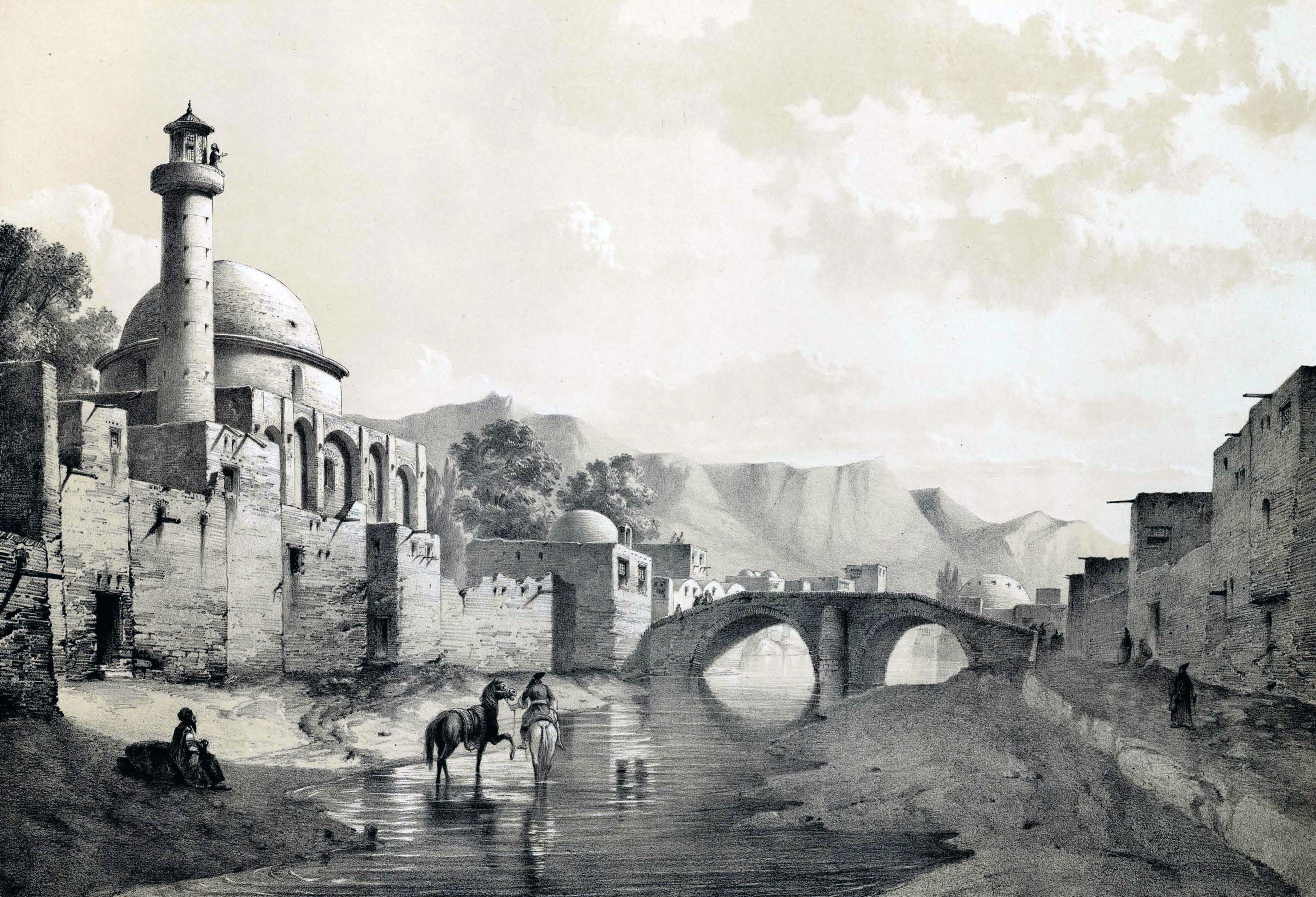 Tabriz